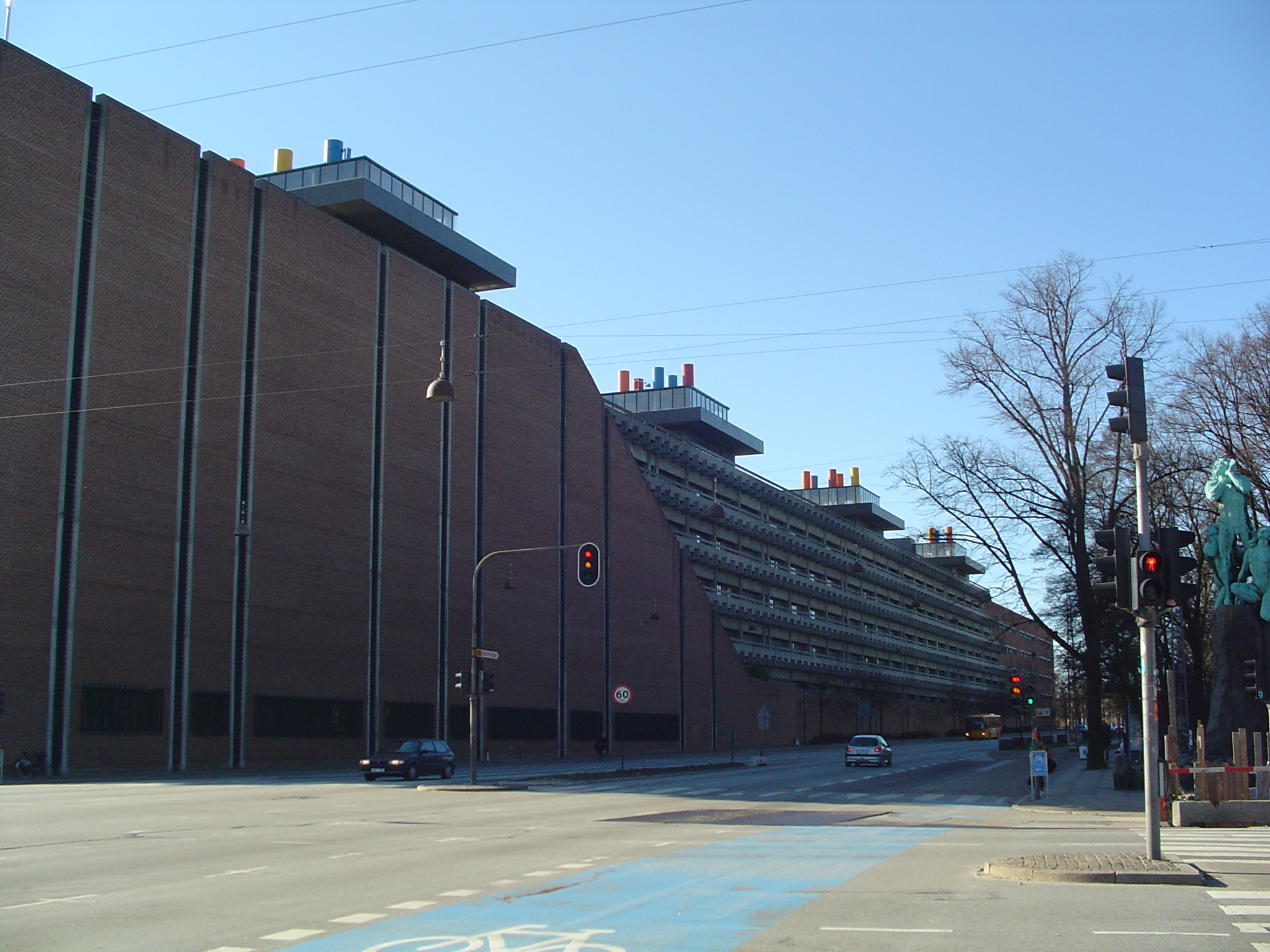 Panum Institute at the University of Copenhagen. Taken by me in early spring 2005.